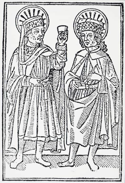 Ugo de' Borgognoni and his son Theodoric de Borgognoni (Lucca, 1206-Bologna, 1298), both italian surgeons